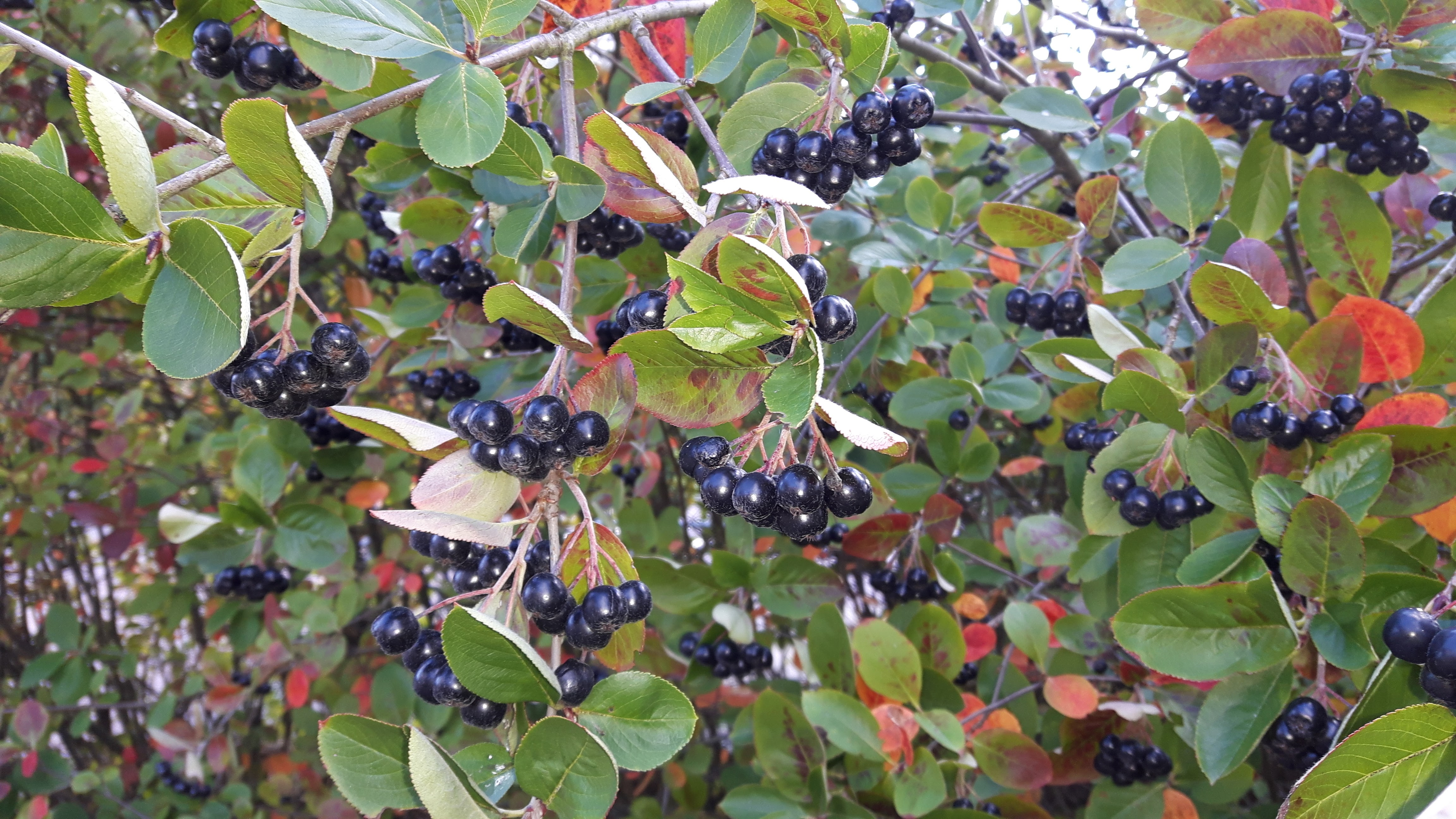 Aronia prunifolia bush with berries in autumn.